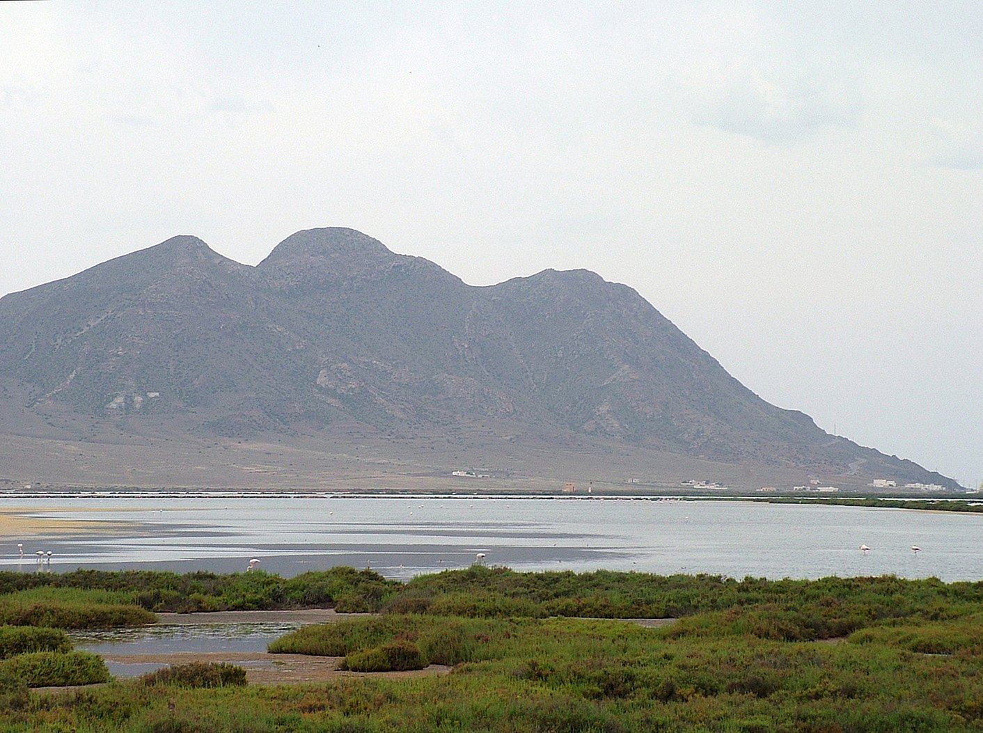 View on Cabo de Gata